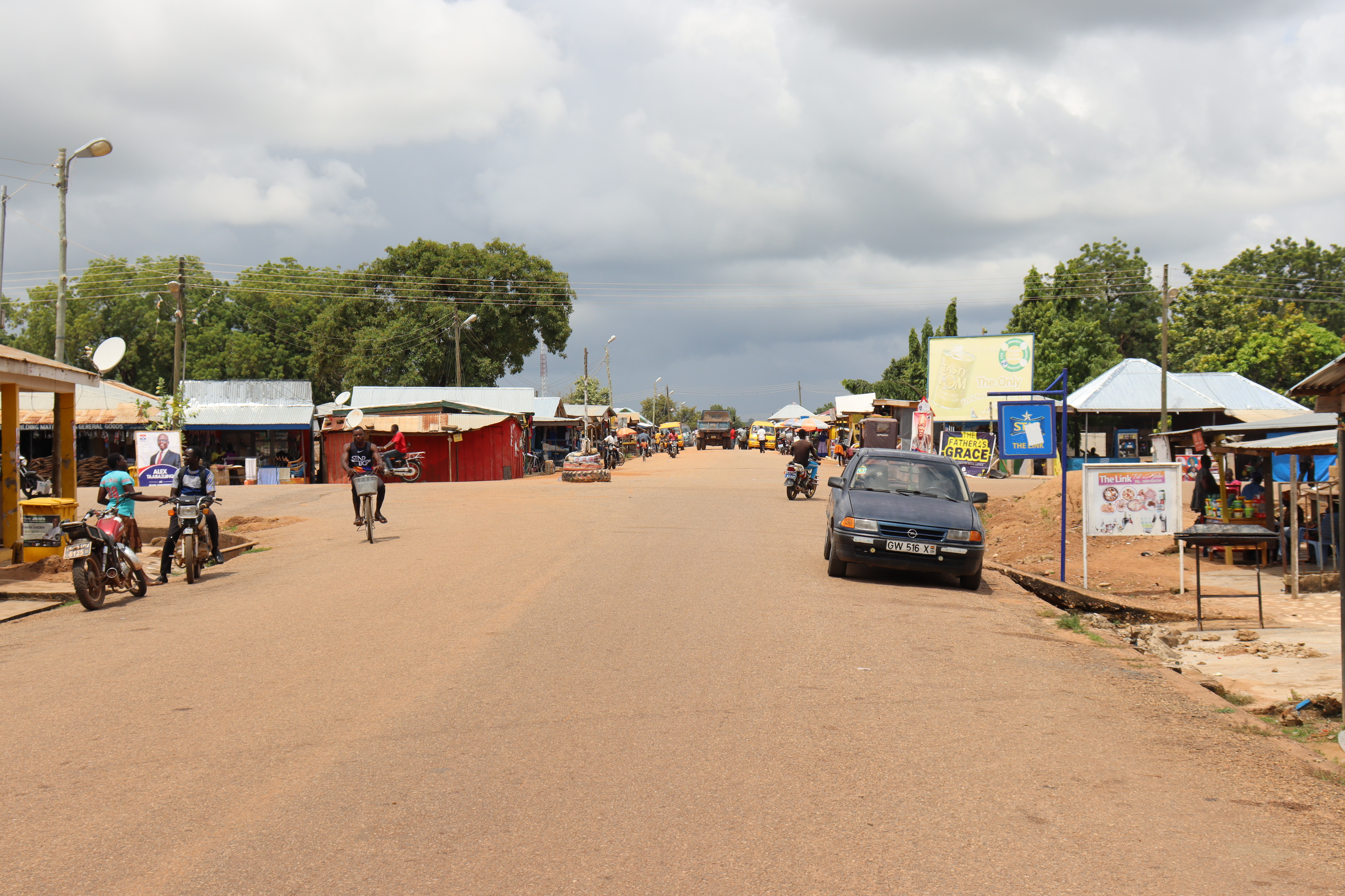 The roundabout is the centre of Jirapa, where two roads cross.